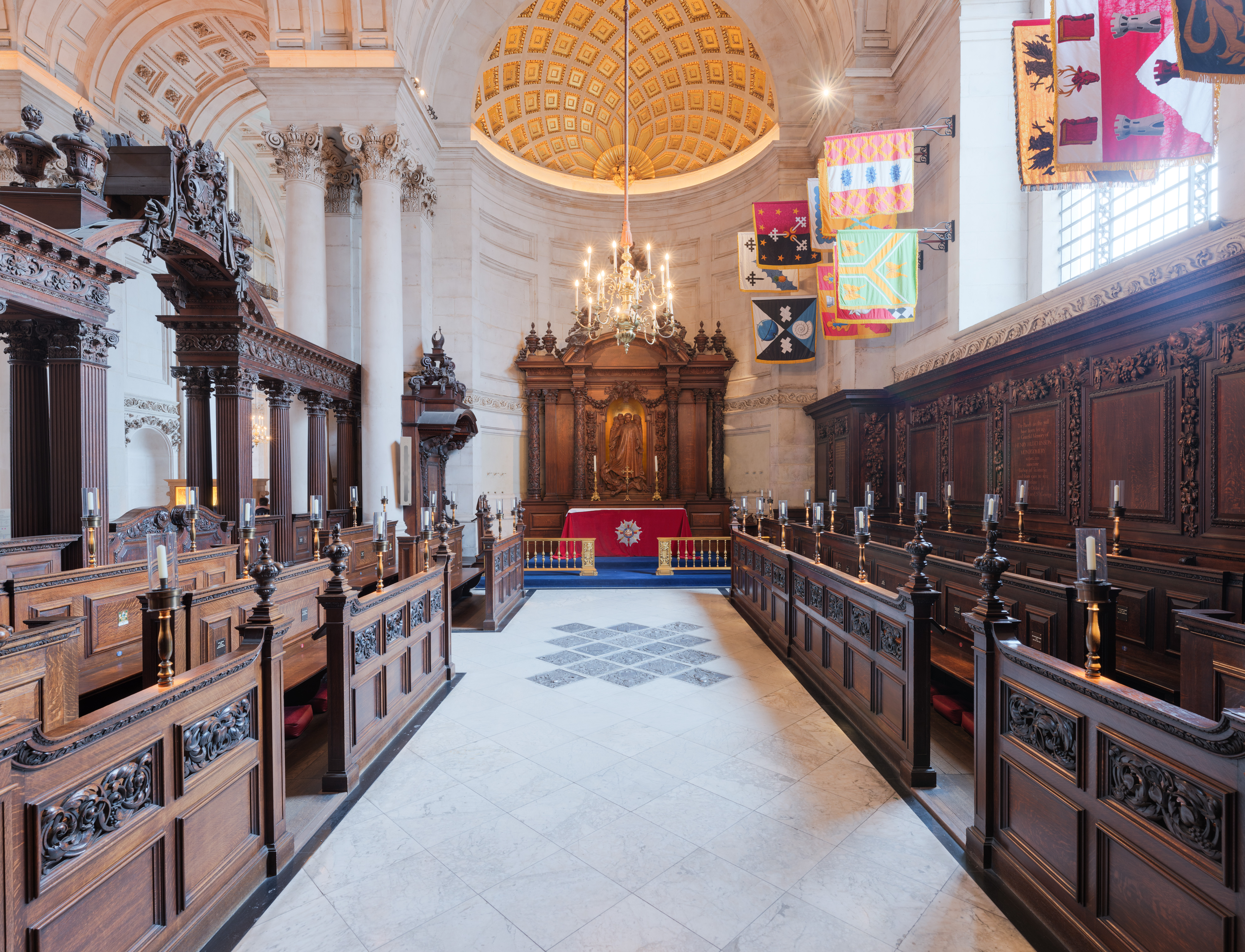 The view looking east in the Chapel of St Michael and St George in the south-western corner of St Paul's Cathedral.